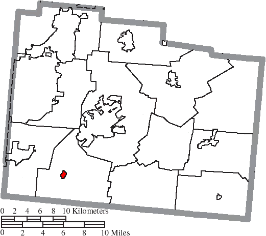 Map of the municipal and township boundaries of Greene County, Ohio, United States, as of the 2000 census, with the location of the village of Spring Valley highlighted. Township borders are shown only in unincorporated areas in order to differentiate incorporated and unincorporated areas more clearly.